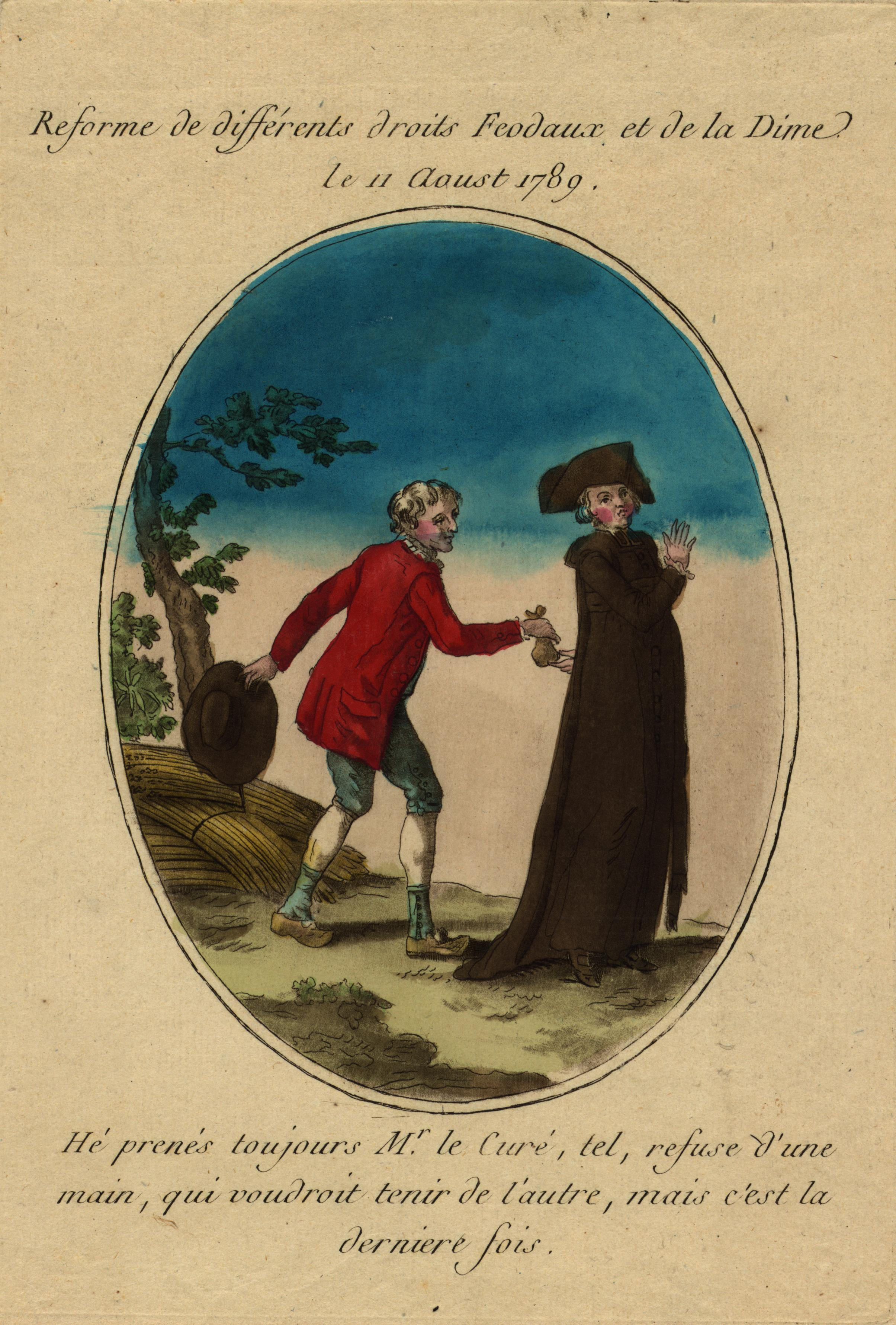 "Reforme de différents droits féodaux et de la dîme. Le 11 août 1789." Library of Congress description : "Print shows, in a rural setting, a man from the working class or third estate, handing a bag of money to a member of the clergy, who refuses with his right hand, but reaches behind his back with his left hand to accept the money." Anonymous hand-coloured etching.